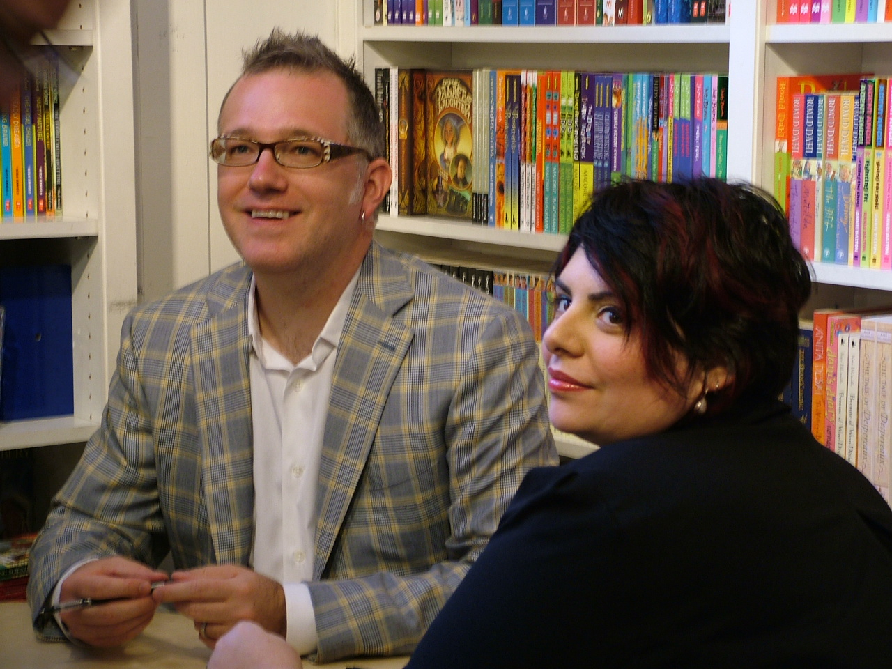 Tony DiTerlizzi and Holly Black, signing copies of their books on 15th March 2008 at The Lion and Unicorn Bookshop.